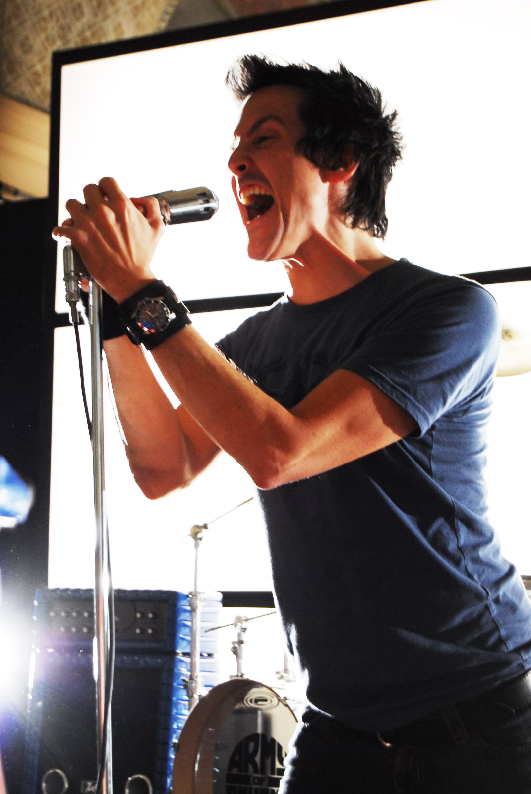 Richard Patrick of the bands Filter, Army of Anyone, and Nine Inch Nails, among others - taken by Castro while working as Gaffer of the music video Goodbye, by Army Of Anyone